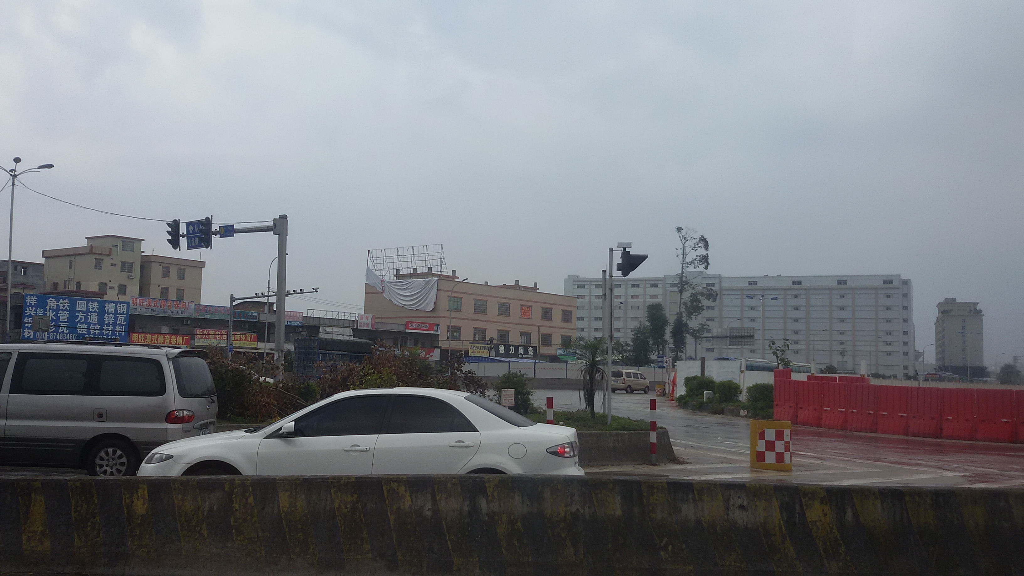 Xinhe Station was began for construction since Feb. 10th., 2016.